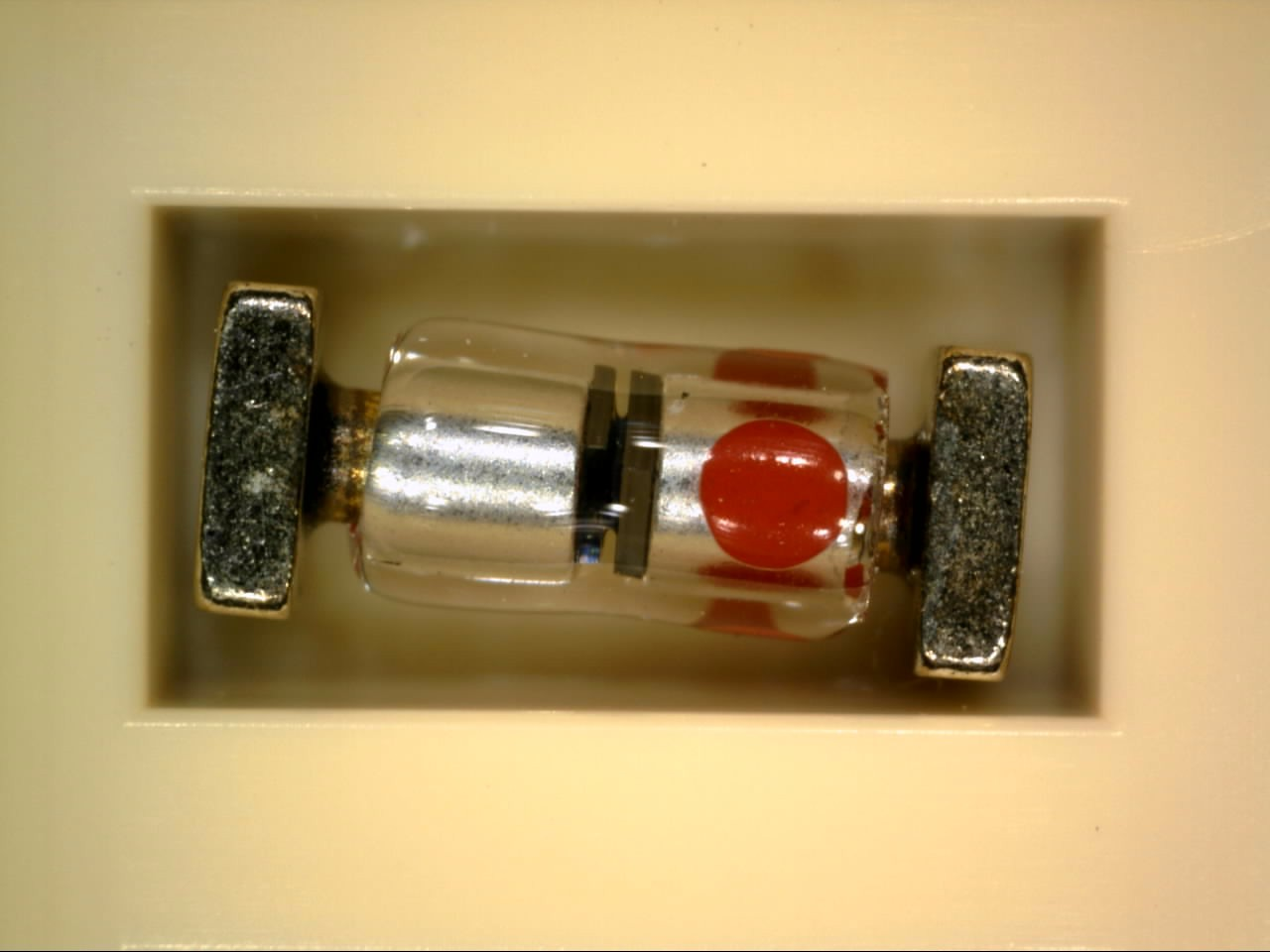 Zener diode for military or high-reliability applications (JAN 1N6316) in QuadroMELF package.